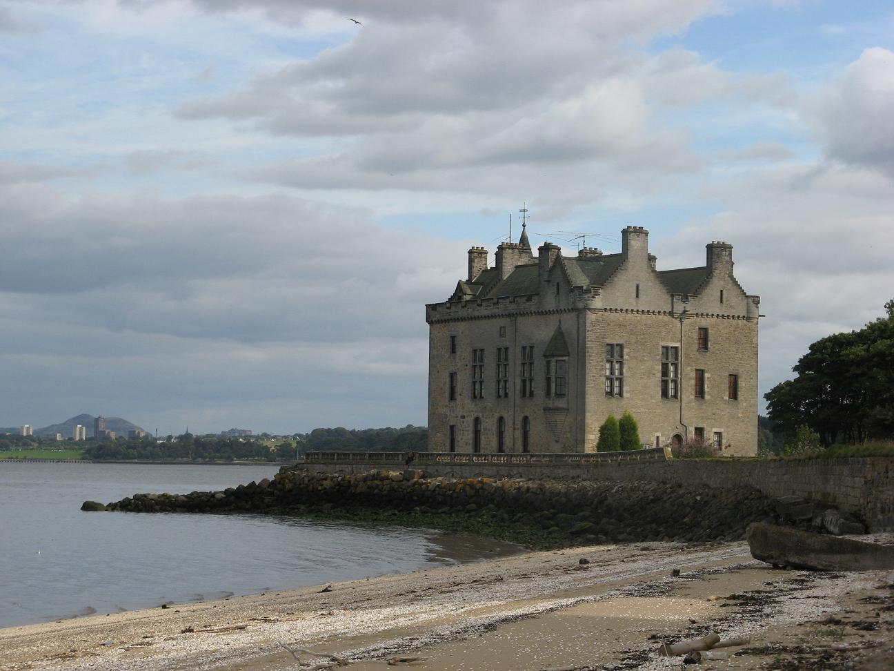 Barnbougle Castle, on the Dalmeny Estate near Edinburgh, Scotland. View from the north-west with Edinburgh in the background.